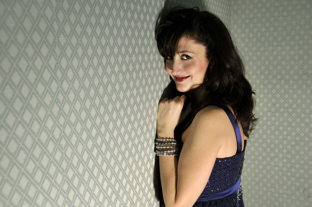 Mezzosoprano María José Montiel